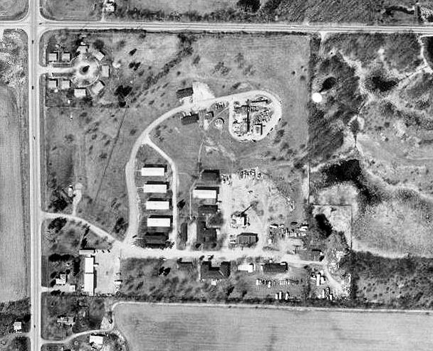 USGS orthophoto of Williams Bay Air Force Station, Wisconsin